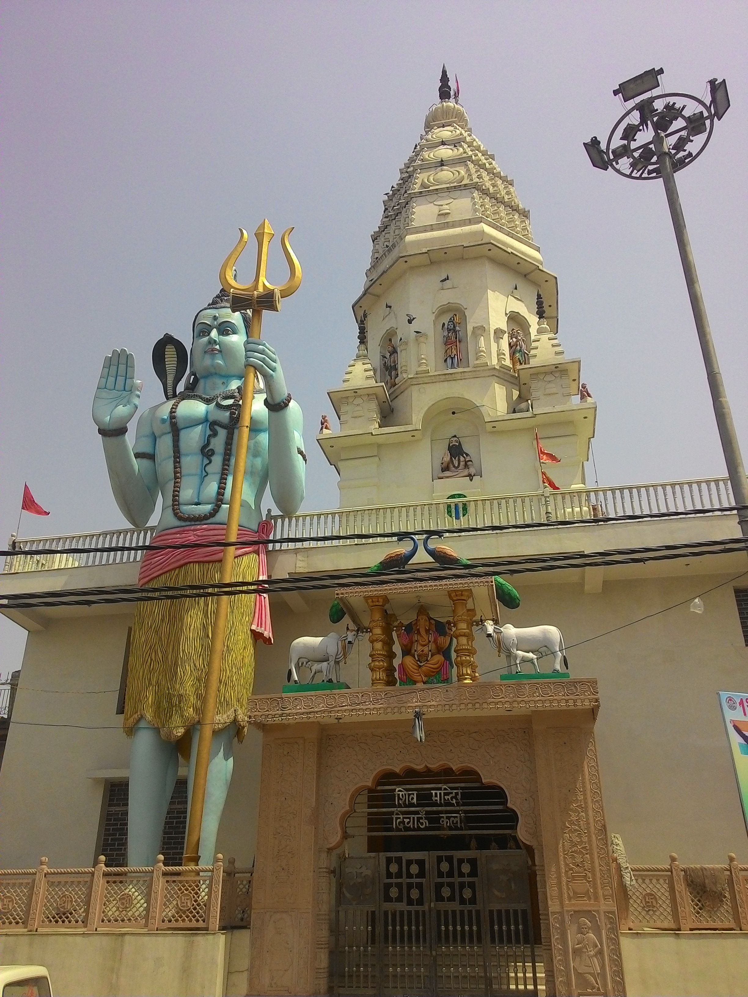 a very old Maha Shiv Temple in the Village Dichaon Kalan